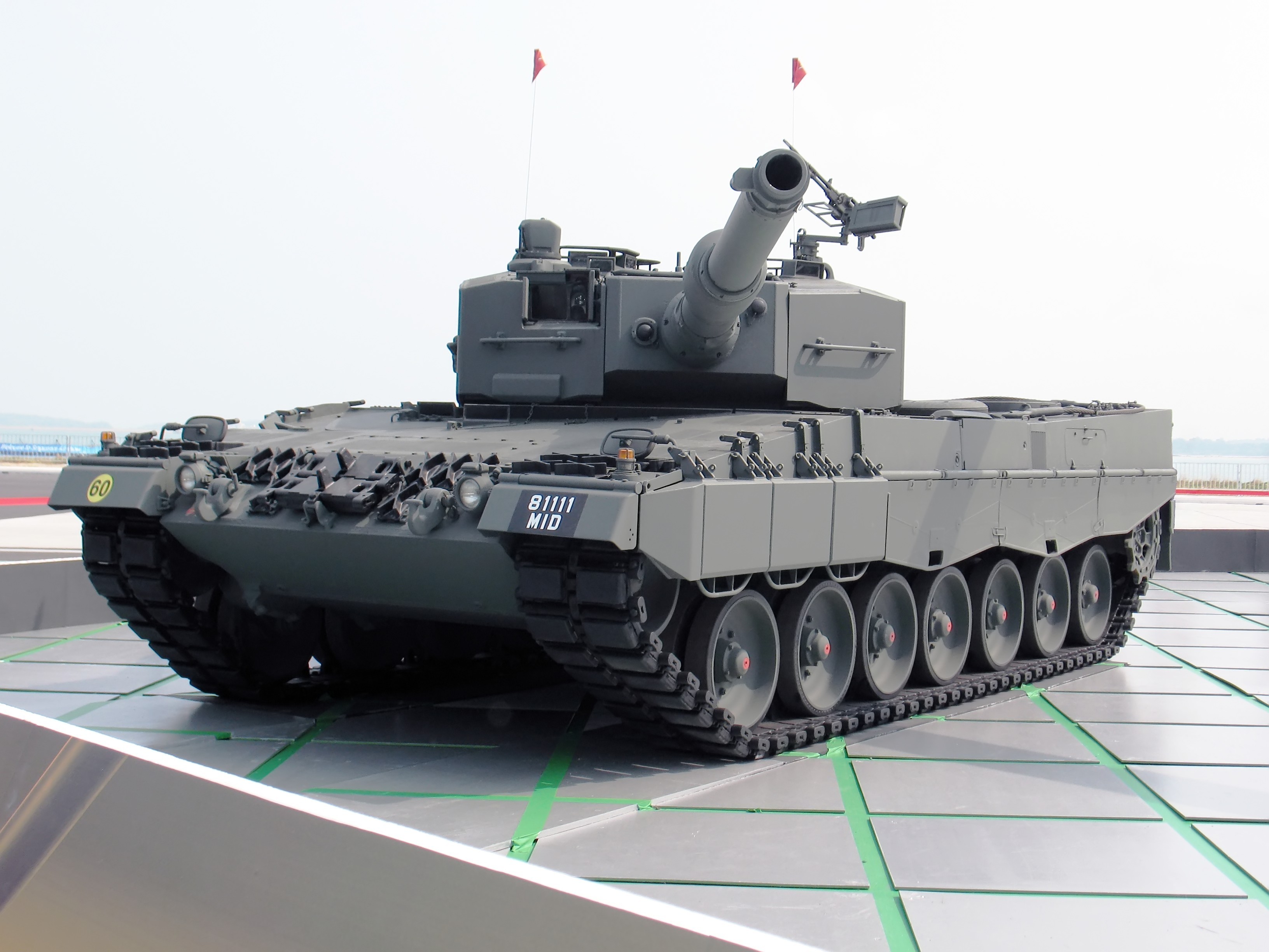 A German Leopard 2A4 Main Battle Tank, part of the Singapore Armed Force's arsenal, on display at the Singapore Airshow 2008